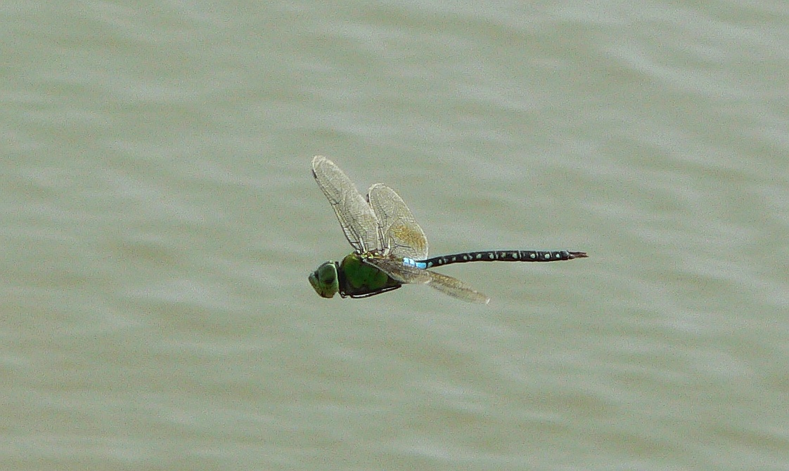 Blue-tailed Green Darner Anax guttatus. Photographed in HaleYadthore, KRNagar, Mysore India, on 13 Oct 2007.